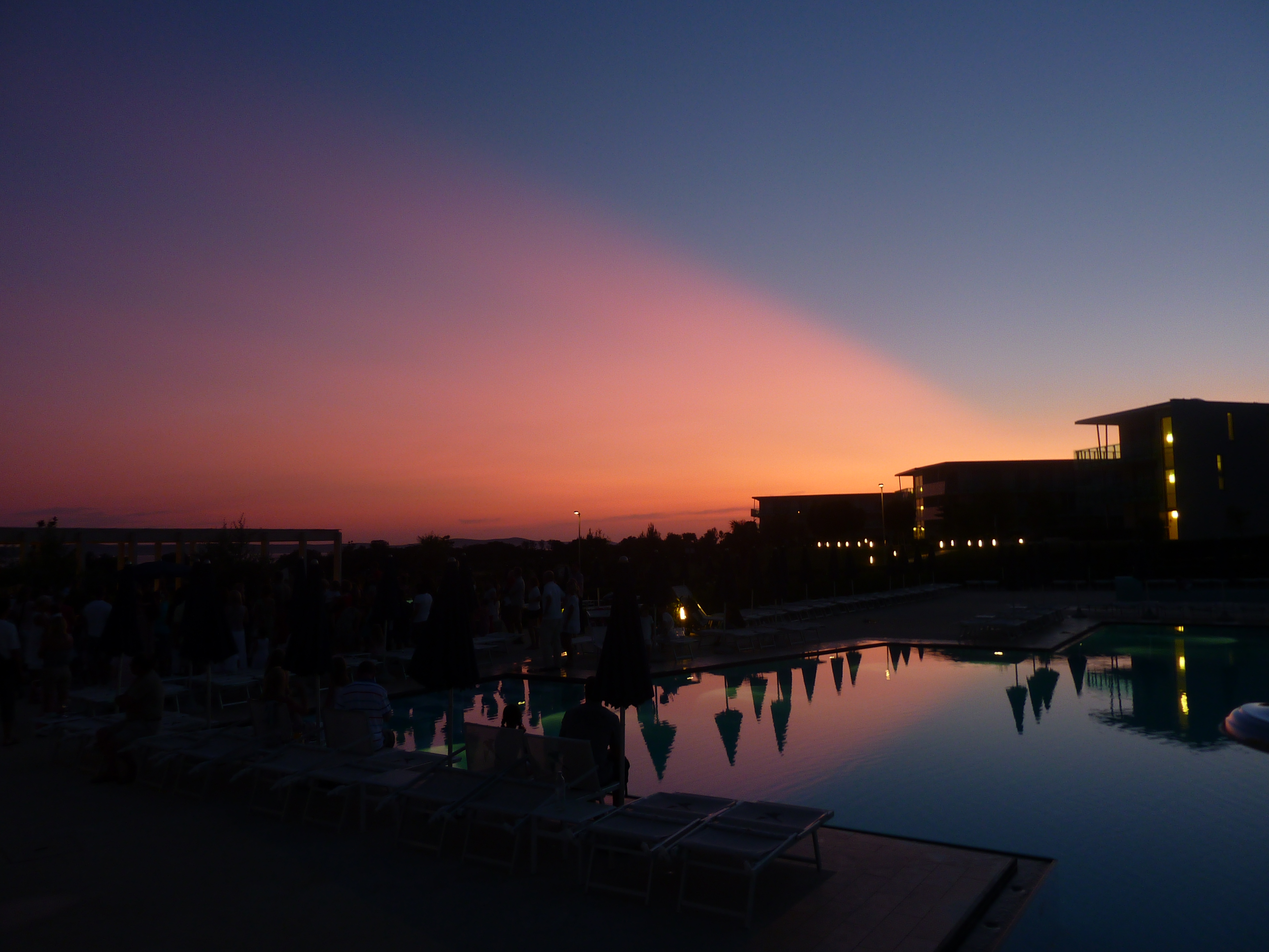 Dusk from Punta Skala in Petrčane near Zadar, Croatia. In blue-purple-orange-red colors.